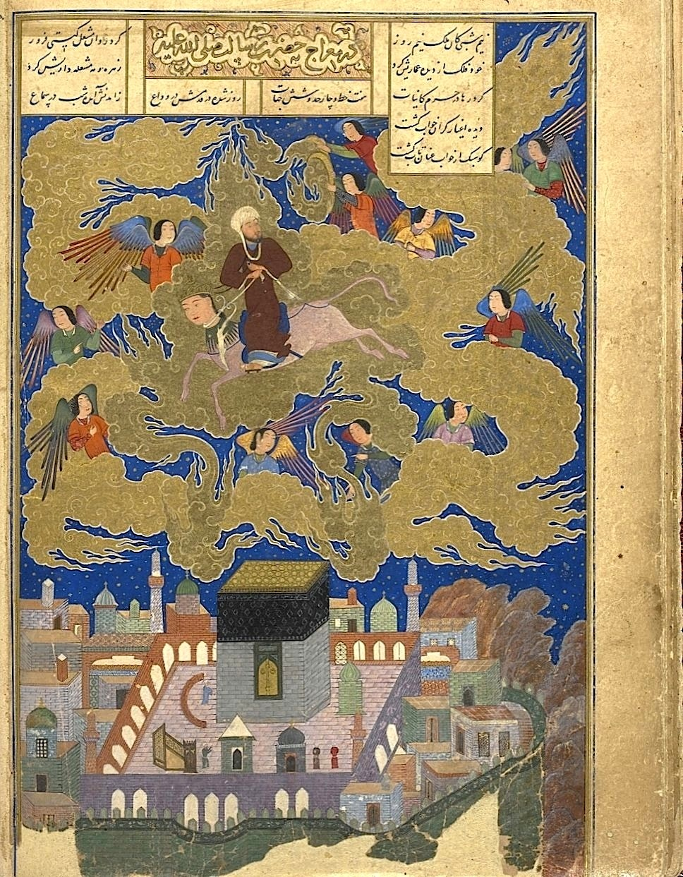 Attributed to `Abd al-Razzaq by Jahangir, black and white sketch attributed to Bihzad by Dust Muhammad, probably by Qasim Ali (pupil of Bihzad), like most of the other 22 paintings in the 1494/5 Khamsa. In the collection of British Museum